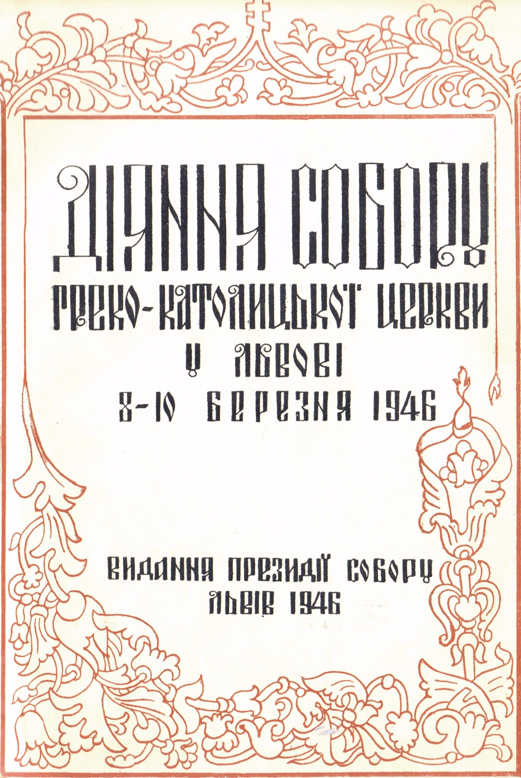 Lvov sobor